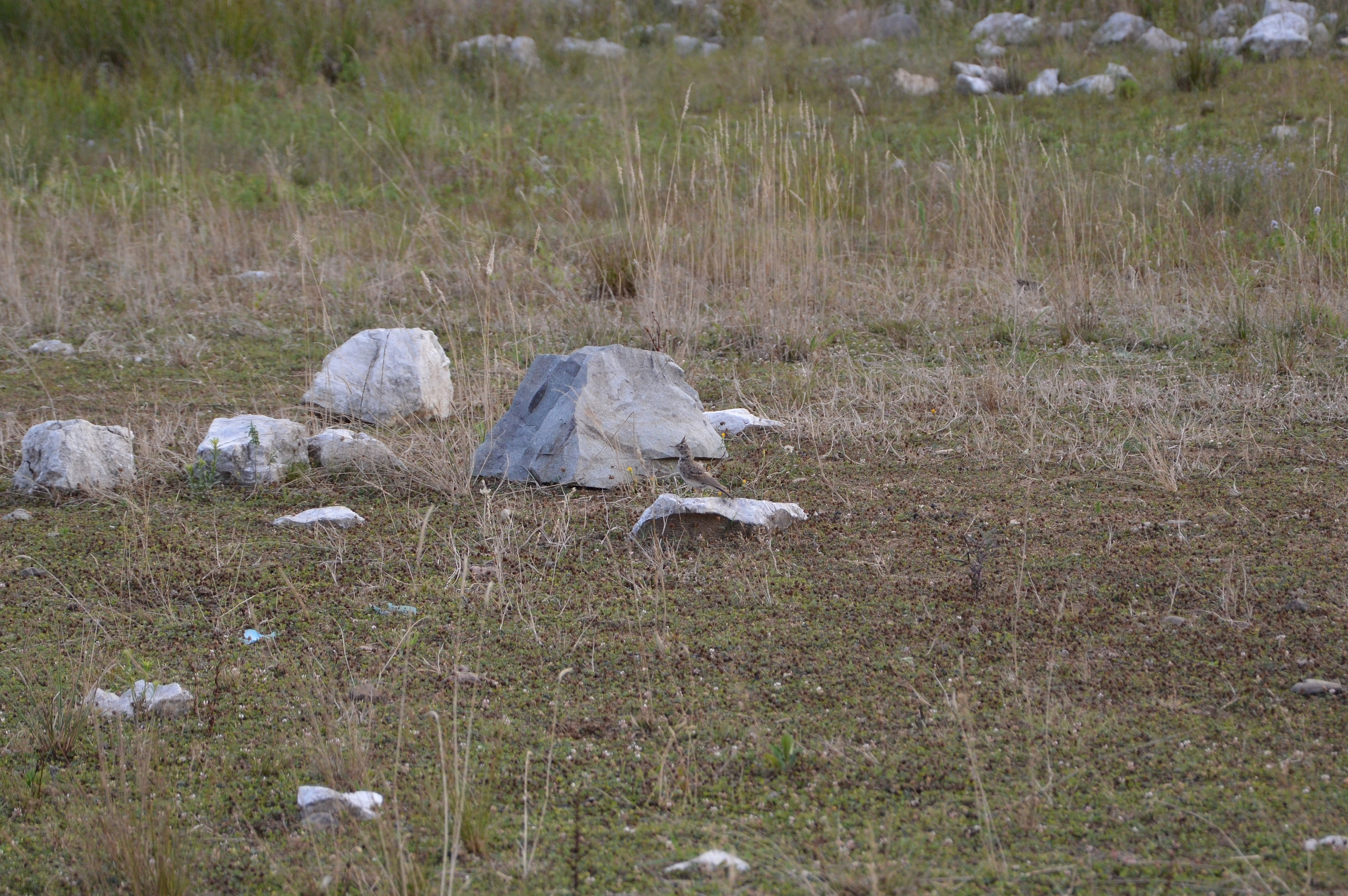 Crested lark (Galerida cristata) at Mali lag reservoir, Botevgrad, Bulgaria.